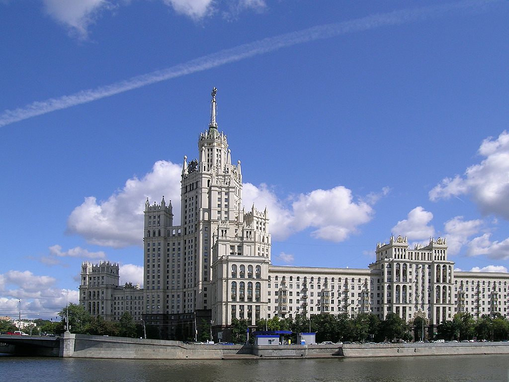 Kotelnicheskaya Embankment Building